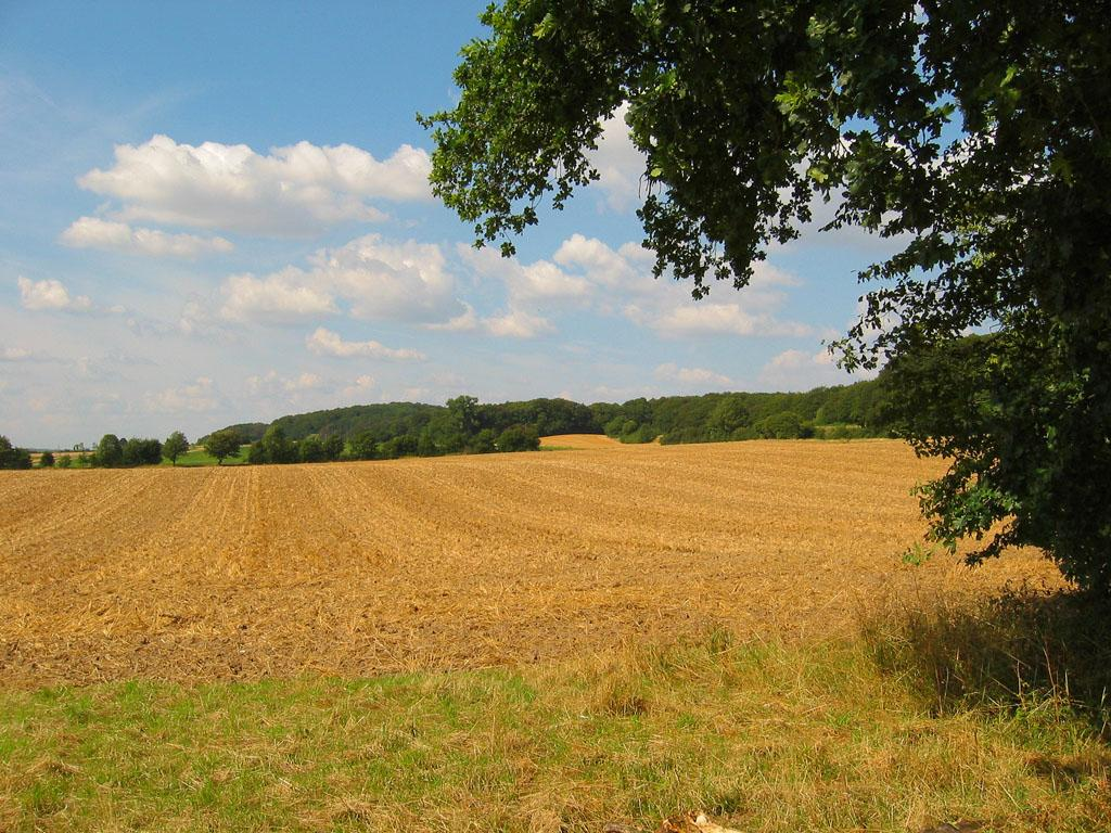 Countryside on the side of the Gehrdener Berg, a hill in the Calenburg Land, Lower Saxony, Germany